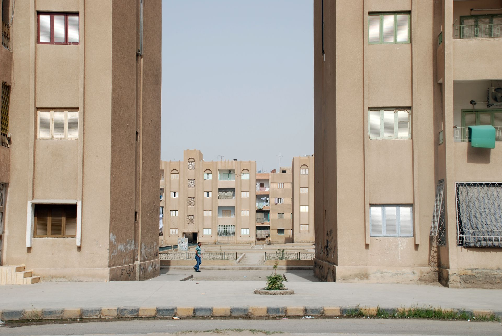 Ar-Raqqah, Syria, new town 4 km west of center